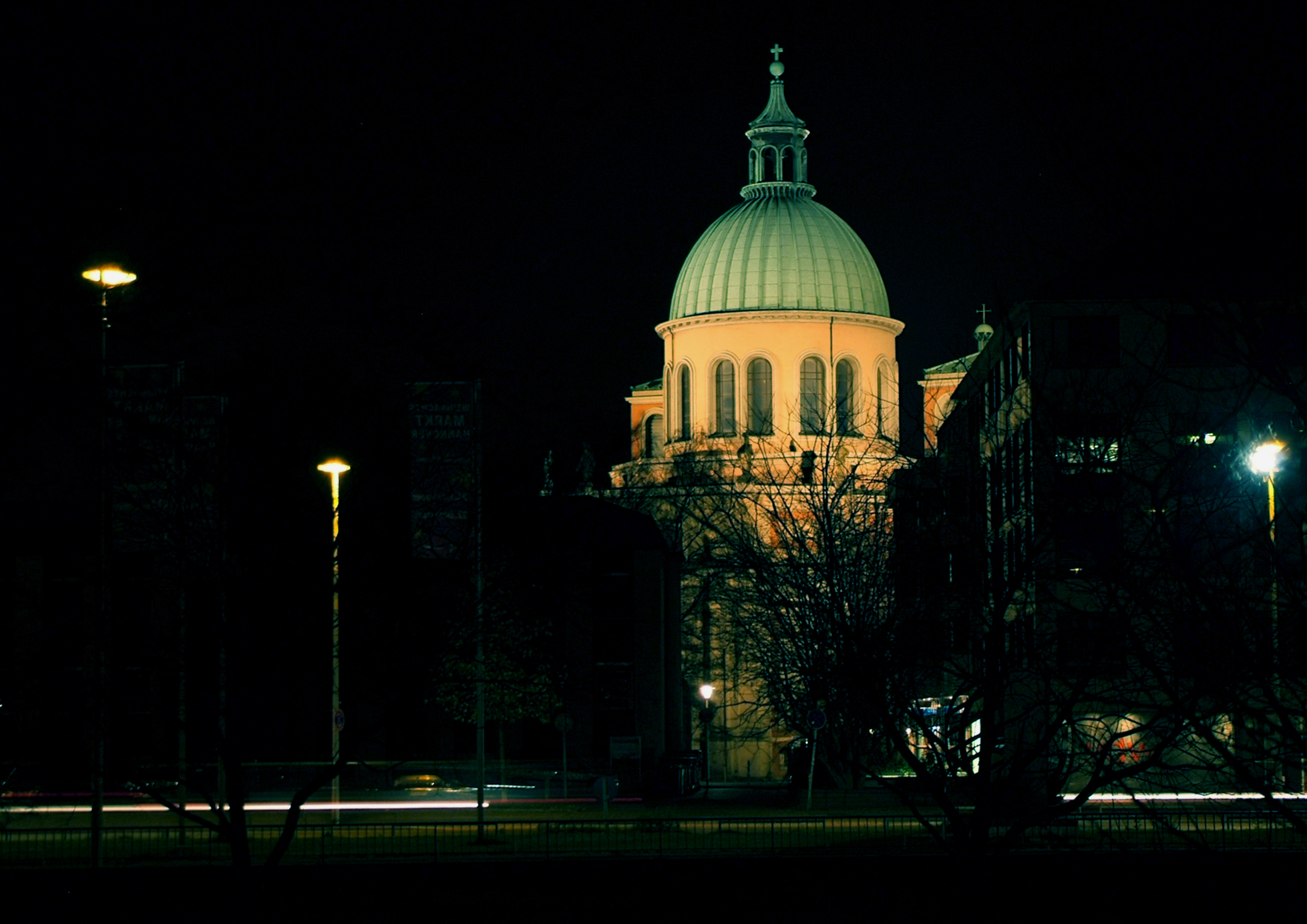 Hanover at night ...